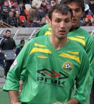 Georgy Jioev in action for FC Kuban